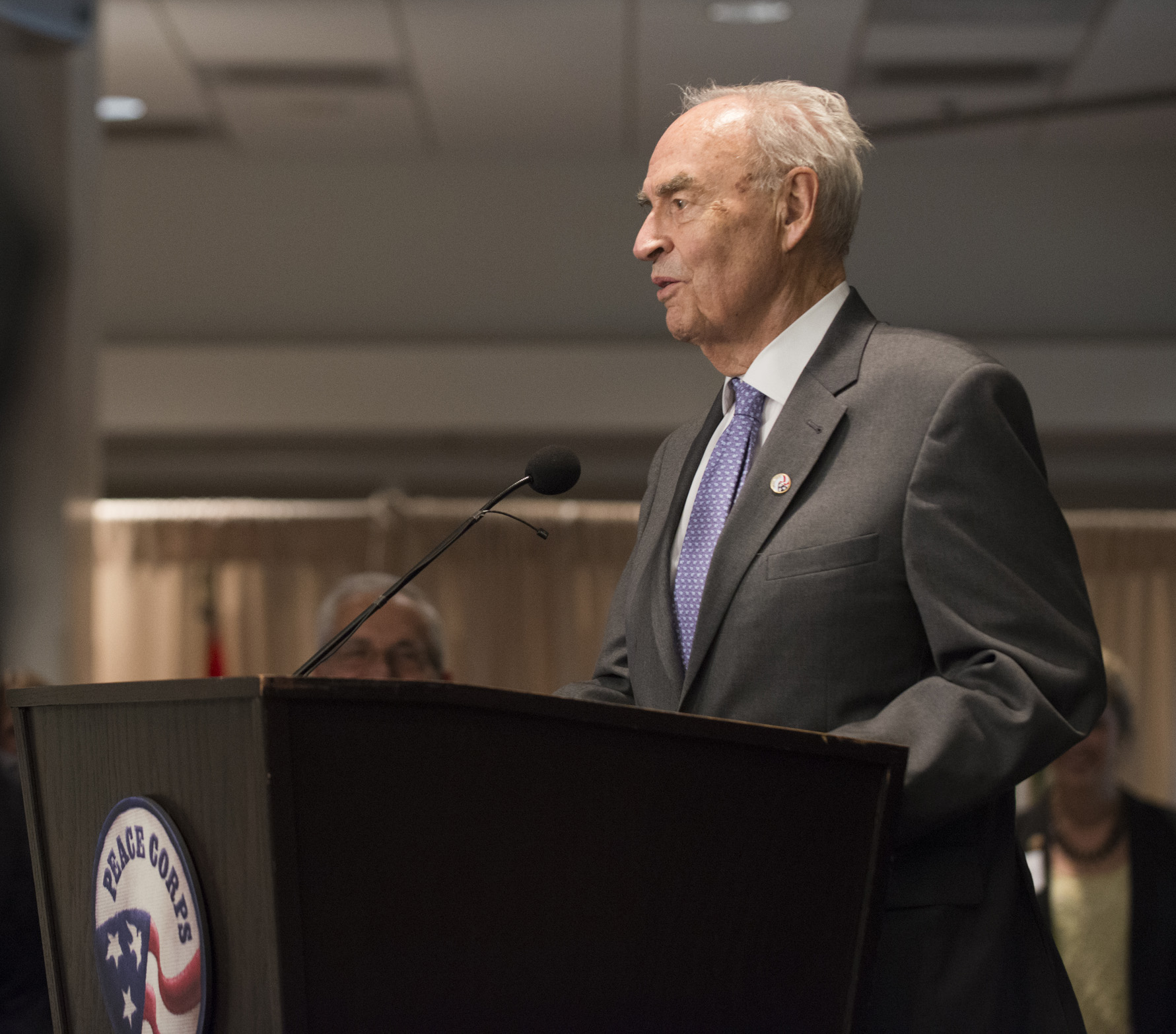 Senator Harris Wofford at the formal swearing-in ceremony of the 19th Director of Peace Corps, Carrie Hessler-Radelet